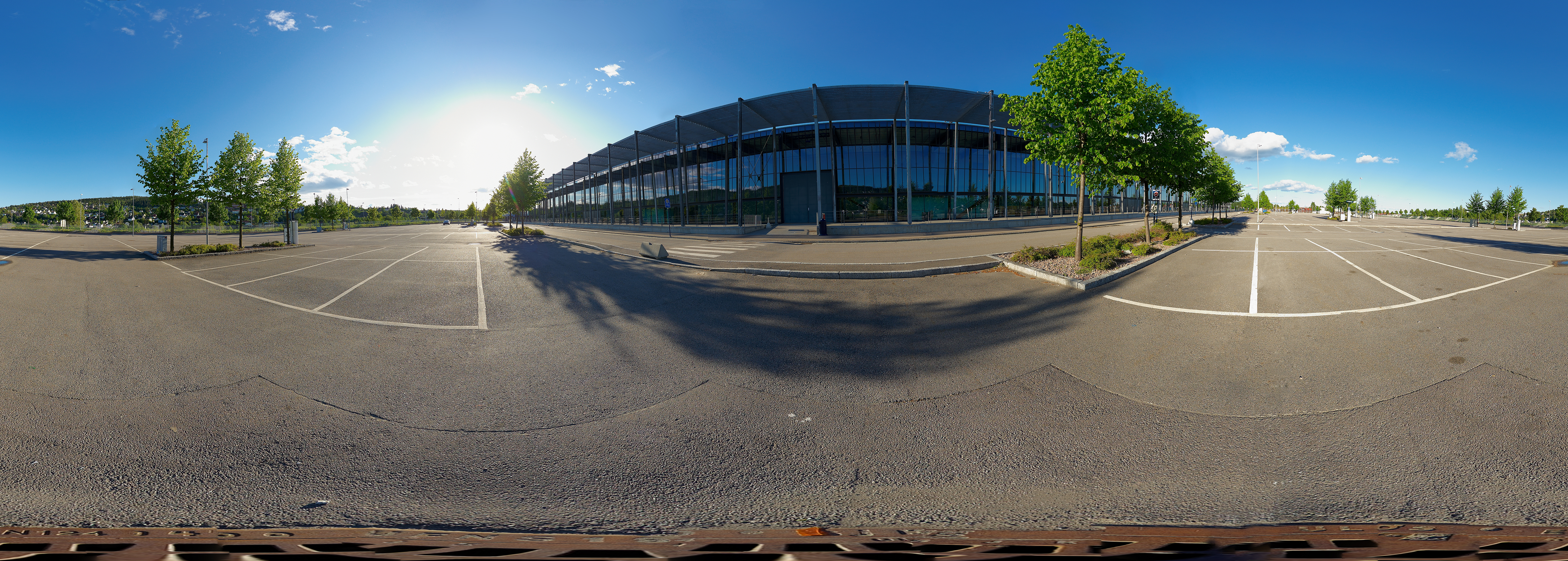 Equirectangular panorama built from 9 pictures. See also its stereographic projection Nikon D700 with Nikon Fisheye-NIKKOR 16mm f/2.8 D